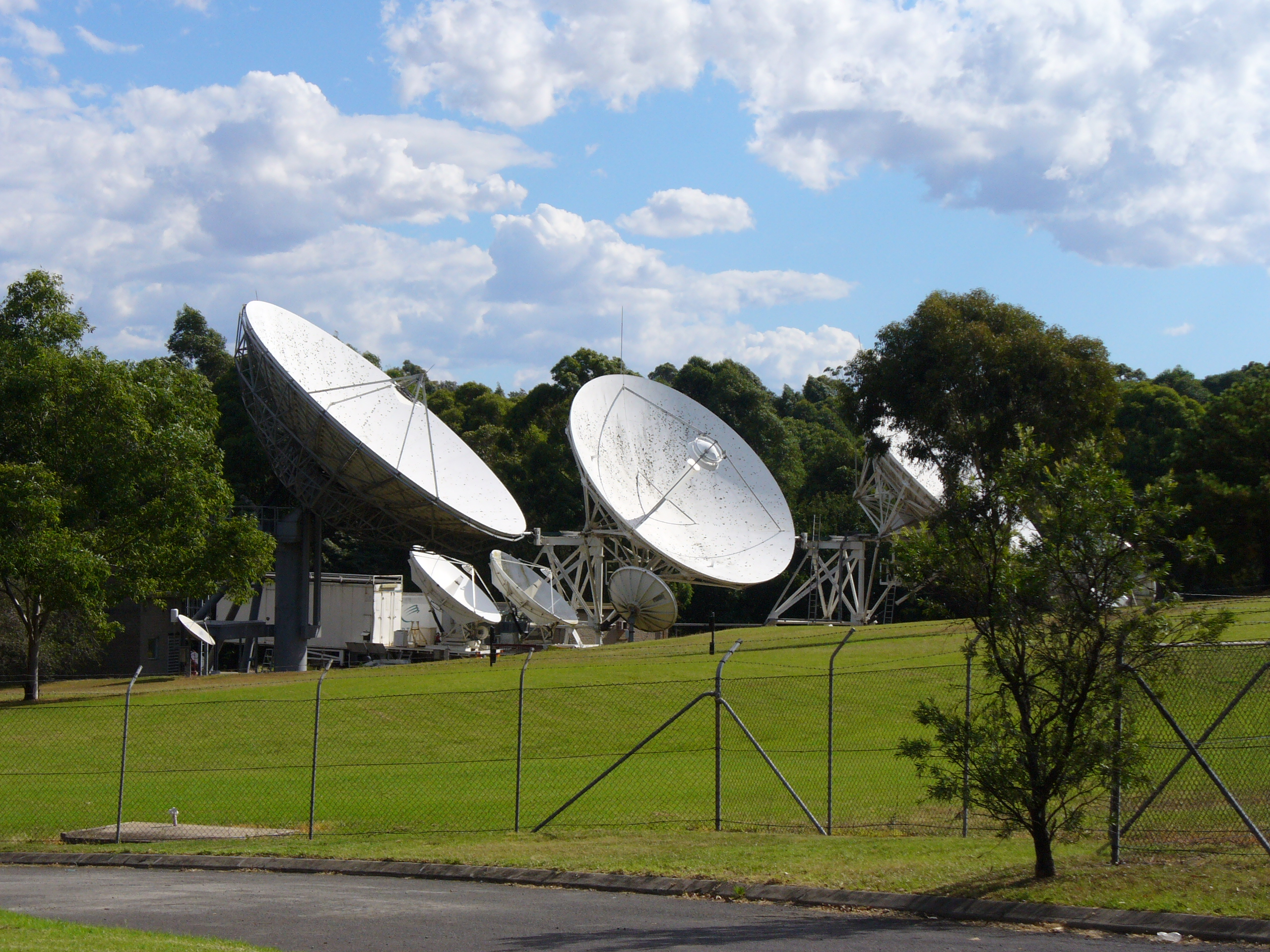 Seven Network site in Epping, New South Wales